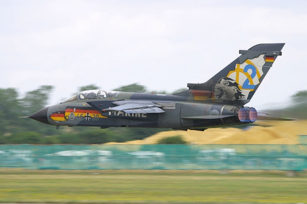 A German Panavia Tornado IDS (s/n 46+20) used as a flying display aircraft for the Marinefliegergeschwader 2 (MFG 2) (2nd Naval Fighter Wing) in 2005 when MFG 2 was disbanded as the last fighter wing of the German navy. Below the MFG 2-emblem on the tail fin is the emblem of the re-established Aufklärungsgeschwader 51 (AG 51) "Immelmann" (51st Reconnaissance Wing) of the Luftwaffe (German Air Force), which was equipped with the Tornado fighters of MFG 2 and also took over part of its role.